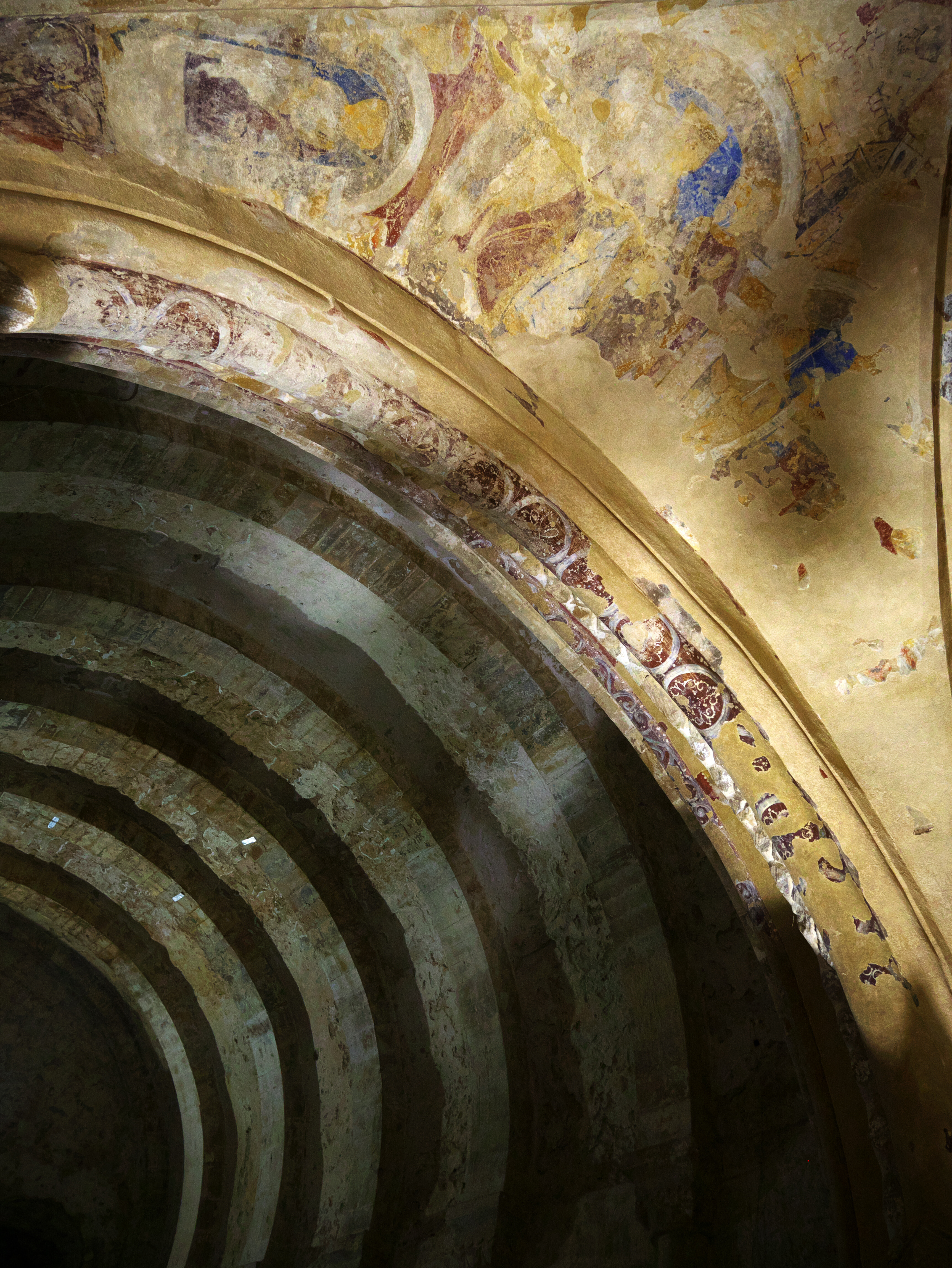 Cormac's Chapel is a 12th-century Romanesque chapel currently undergoing restoration. It's made of sandstone, which wicks up water, so they're trying to dry it out. About 20 years ago, a restoration dude was trying to remove some whitewash from the wall when a chunk of masonry fell off. Tuned out he was lucky though, since they found a load of original frescoes underneath. There isn't much left, but you can pick out fragments of stories and scenes.